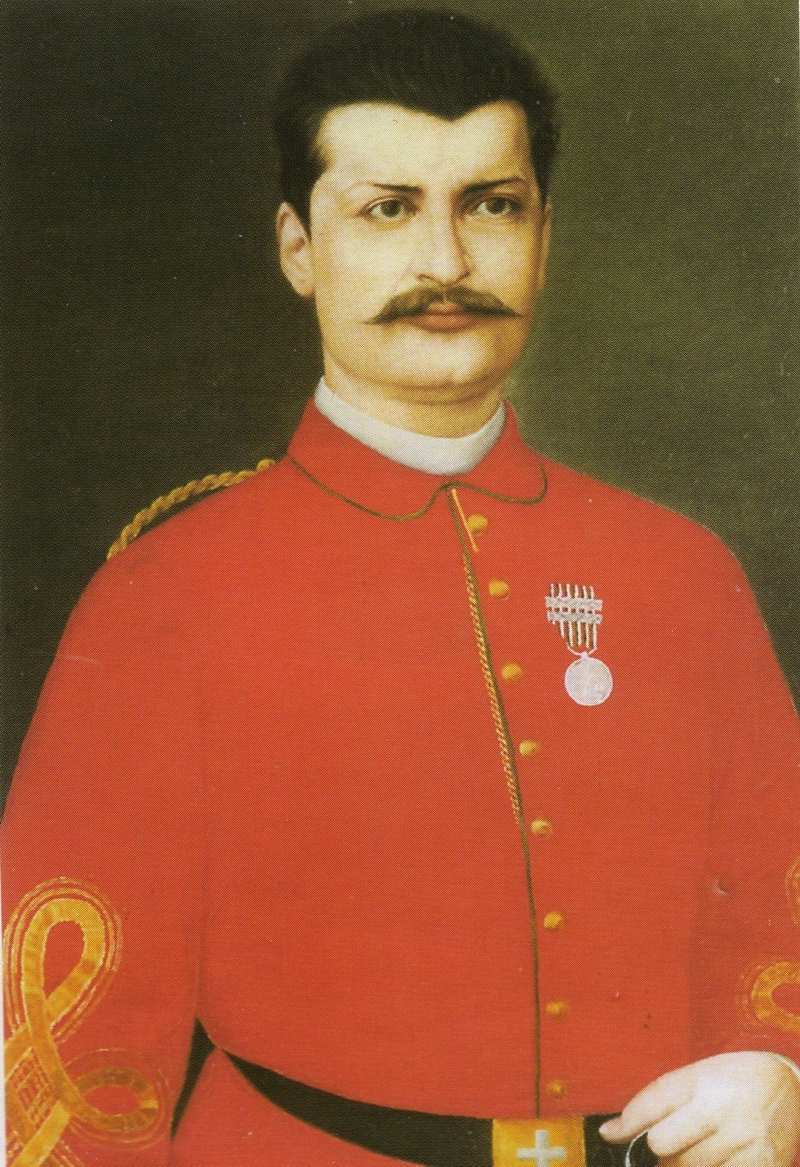 A portrait of Achille Cantoni.